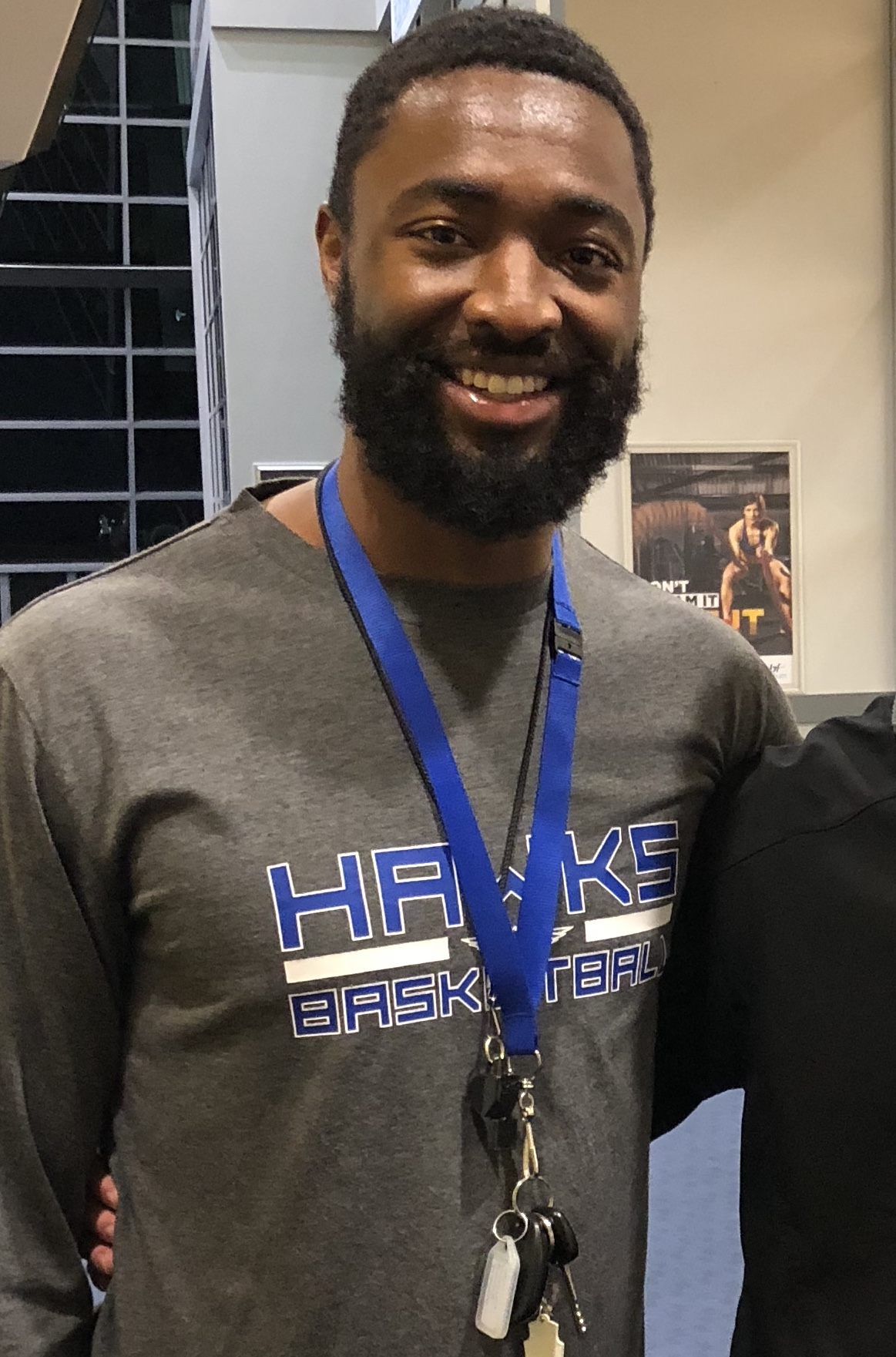 Jacob Holmen of the Perry Lakes Hawks, a few days after suffering a season-ending knee injury